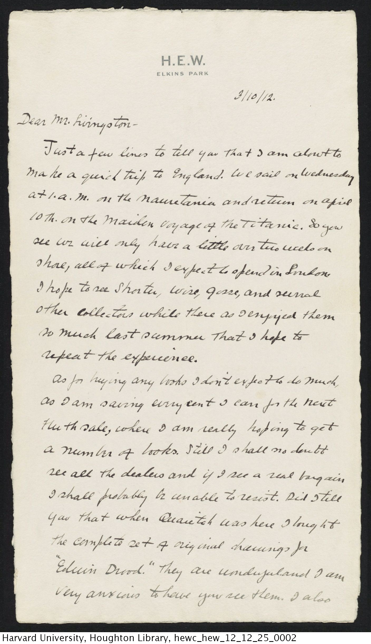 Letter to Luther S. Livingston mentioning Widener's upcoming trip to England (and planned return on the Titanic), and Widener's grandfather's recent purchase of a Gutenberg bible. Page 1 of 2.